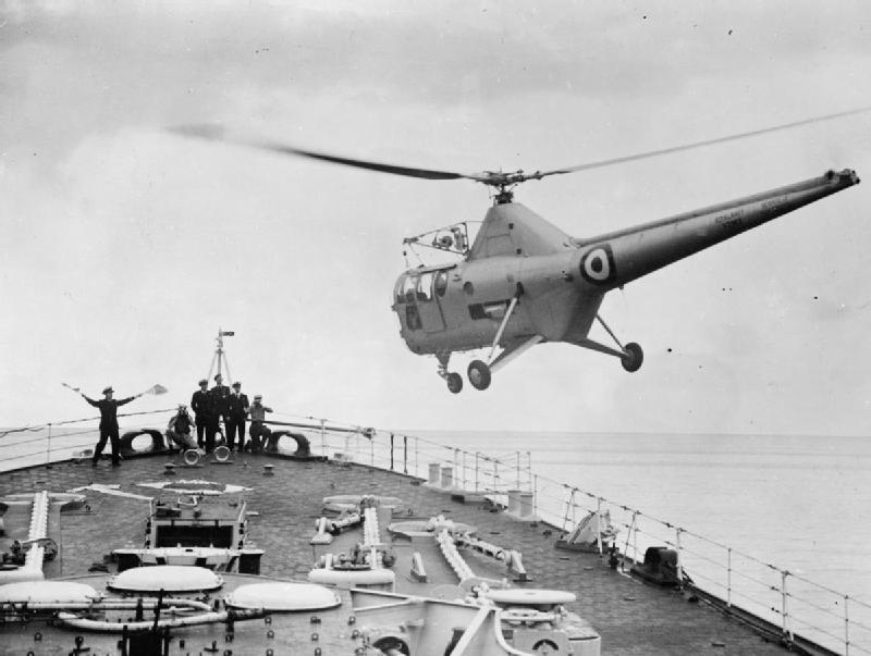 A Westland WS-51 Dragonfly helicopter, a license-built version of the American Sikorsky S-51, landing on the foc'sle of HMS Vanguard